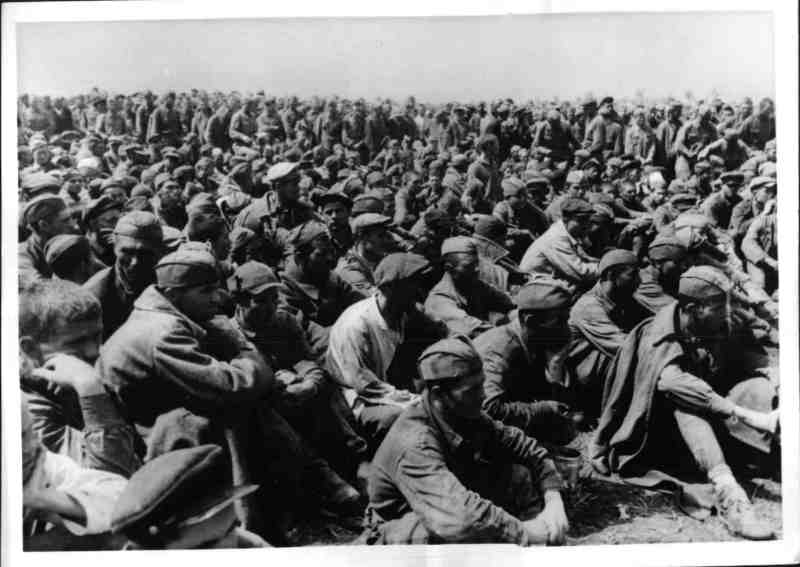 Russian POW's of World War II